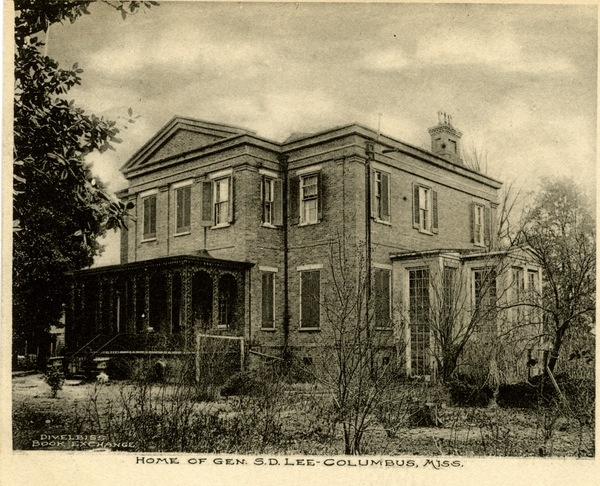 Image of Stephen D. Lee House in Columbus, Mississippi. This version has been cropped from the original found at